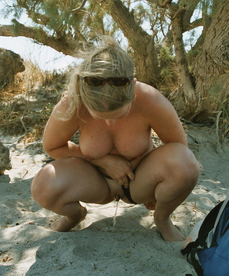 Barefooted blond topless woman crouches in the sand and pees